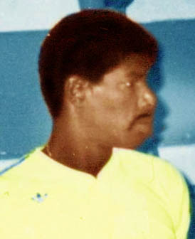 Cropped and colour edited from File:PikiWiki Israel 11155 Events in Israel.JPG